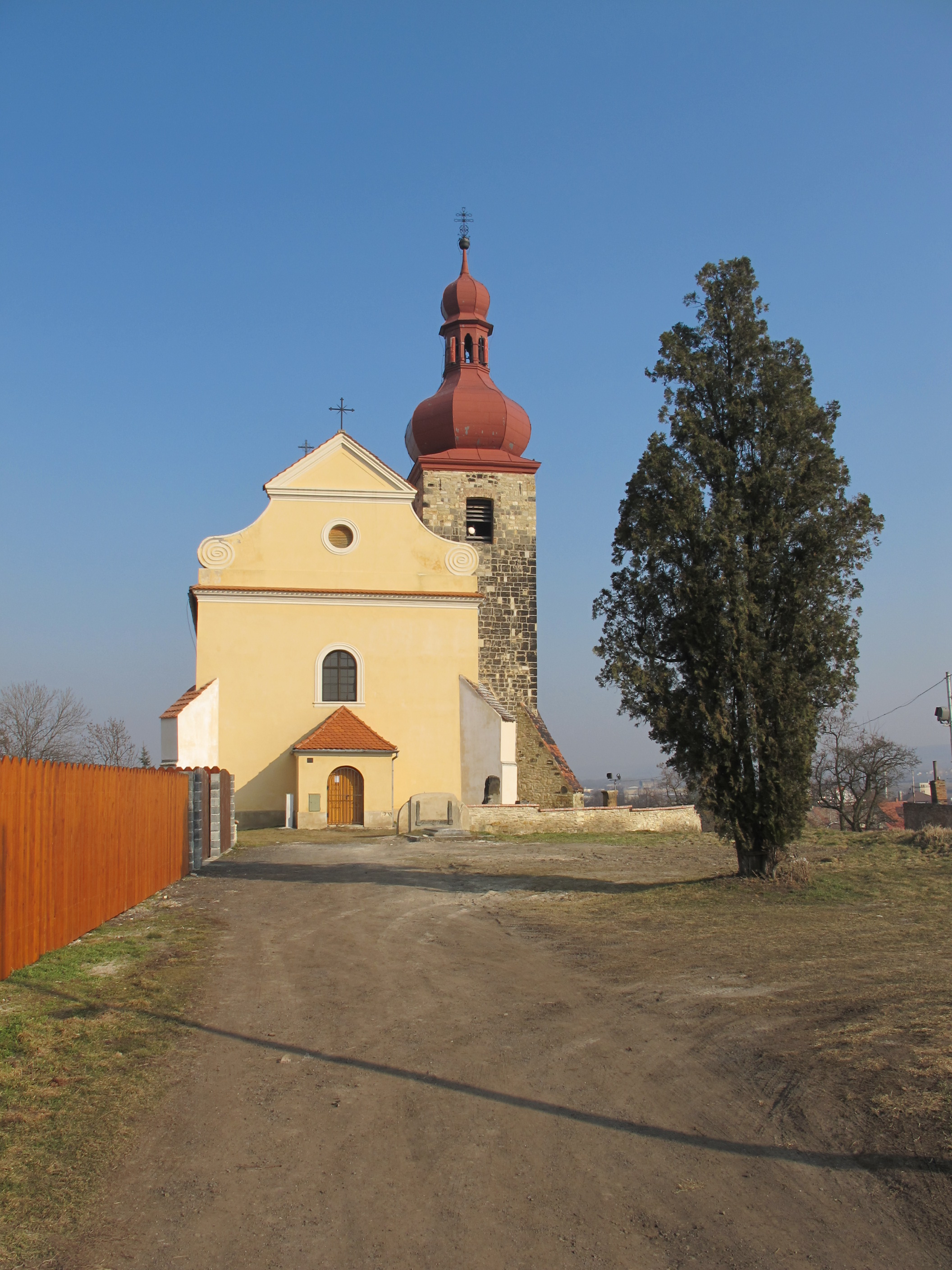 The church of St Lawrence in Černčice, Czech Republic